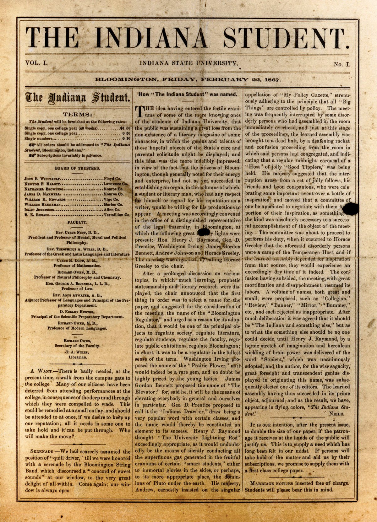 The first issue of the Indiana Daily Student, published in 1867 at Indiana University Bloomington (then known as Indiana State University)